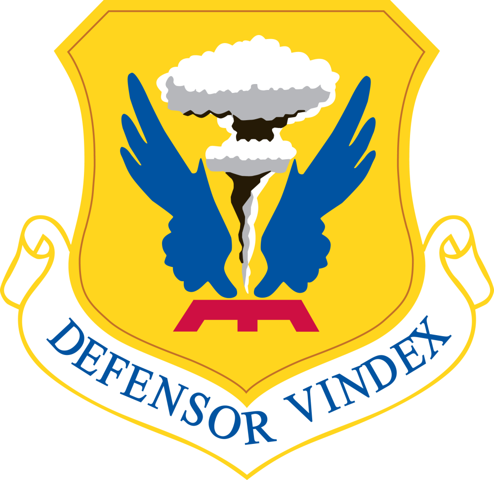 Emblem of the 509th Bomb Wing, a wing of the United States Air Force